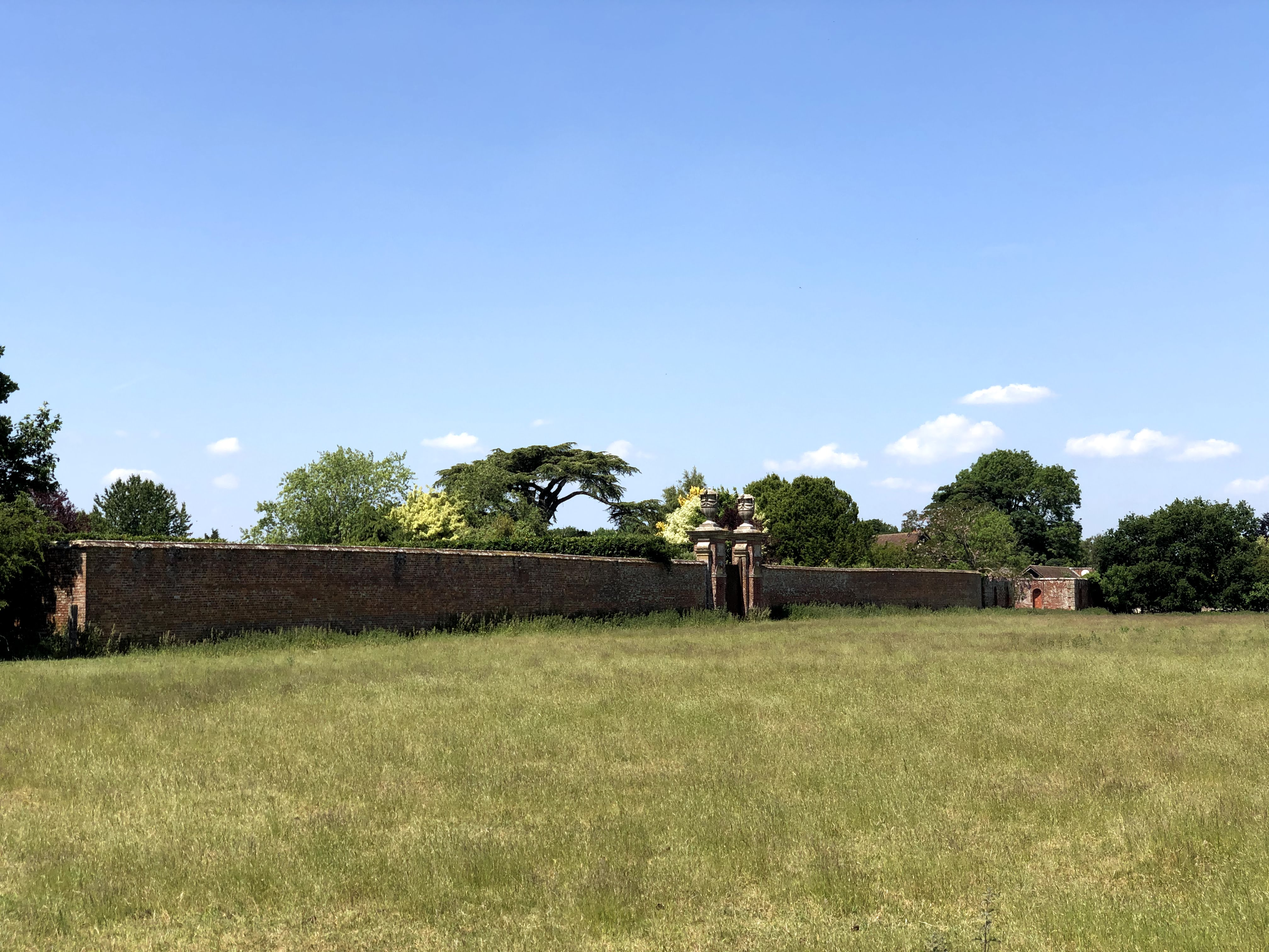 Field in Hamstead Marshall